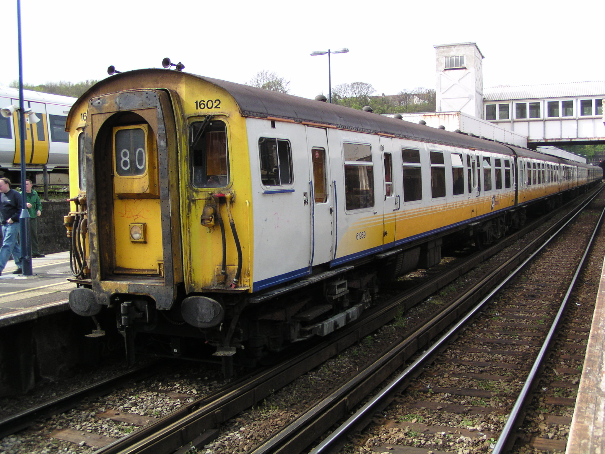 BR Class 411, no. 1602, at Dover Priory. This unit, which was operated by Connex South Eastern, was the only Class 411 unit to be painted into Connex livery, after it was damaged in a collision near London Bridge station in 1999, and was repainted after being repaired at Eastleigh Works. Following withdrawal in 2004 this unit was scrapped.